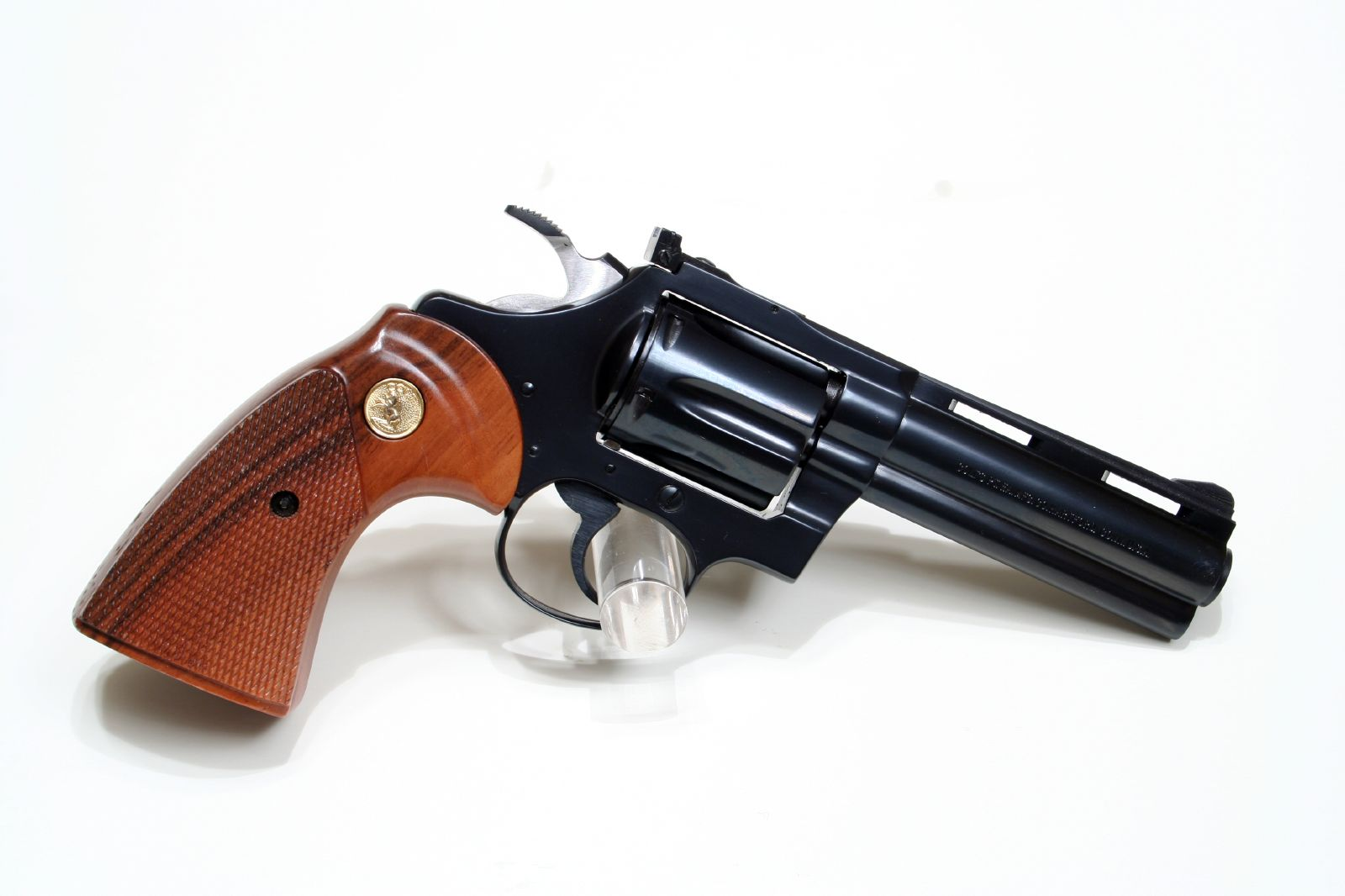 Colt Diamondback .22 LR with 4 inch Barrel.